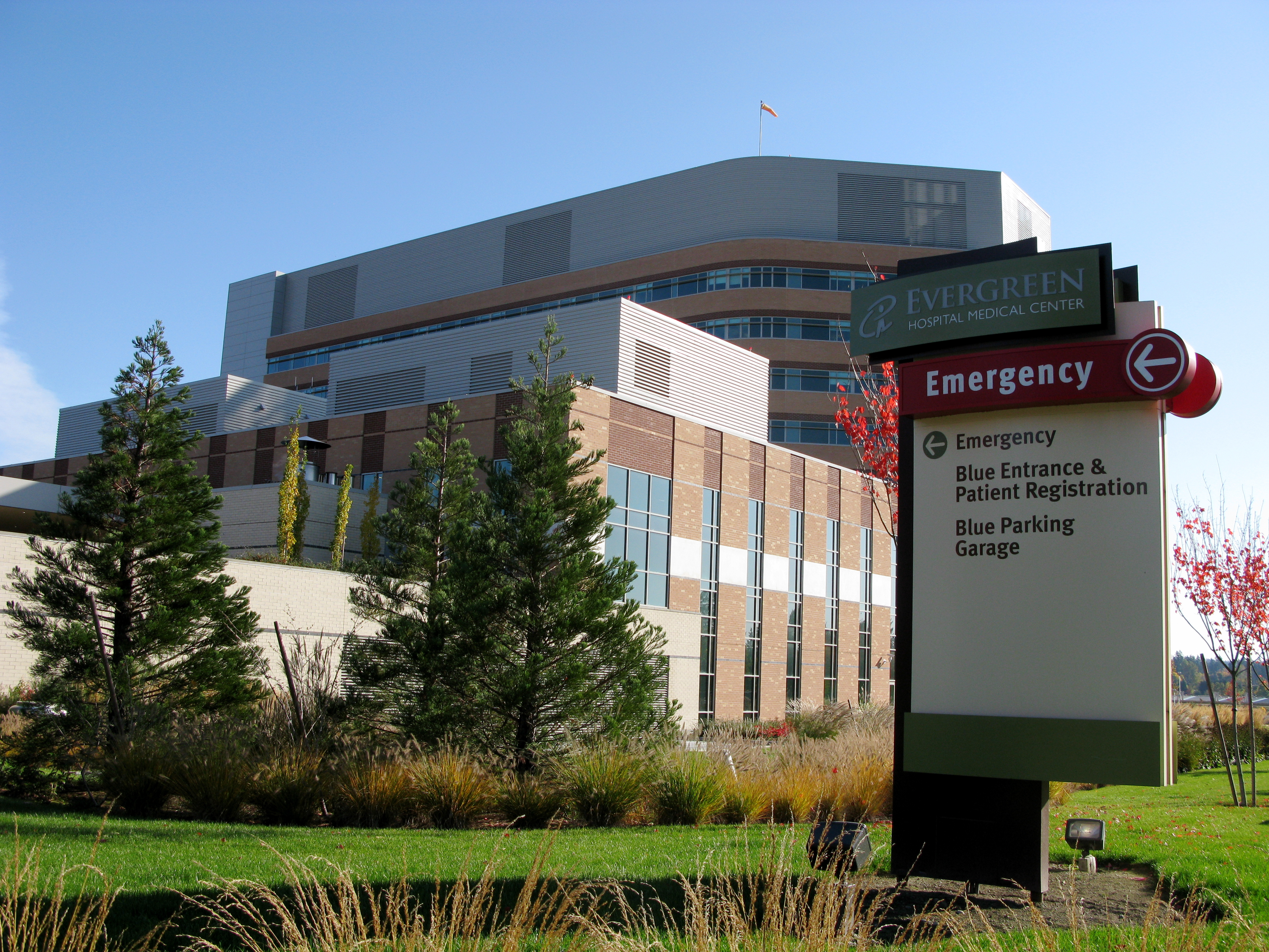 The emergency care tower at Evergreen Hospital Medical Center in Kirkland, Washington.